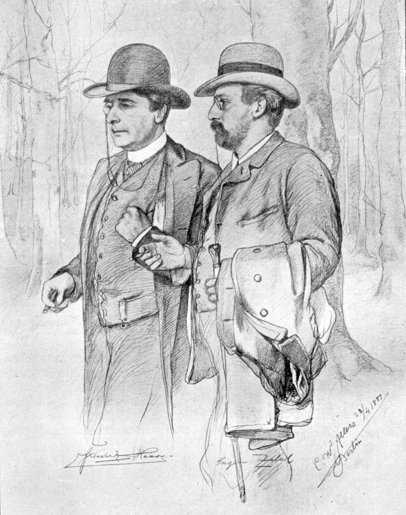 Actor Friedrich Haase and writer Eugen Zabel in Berlin